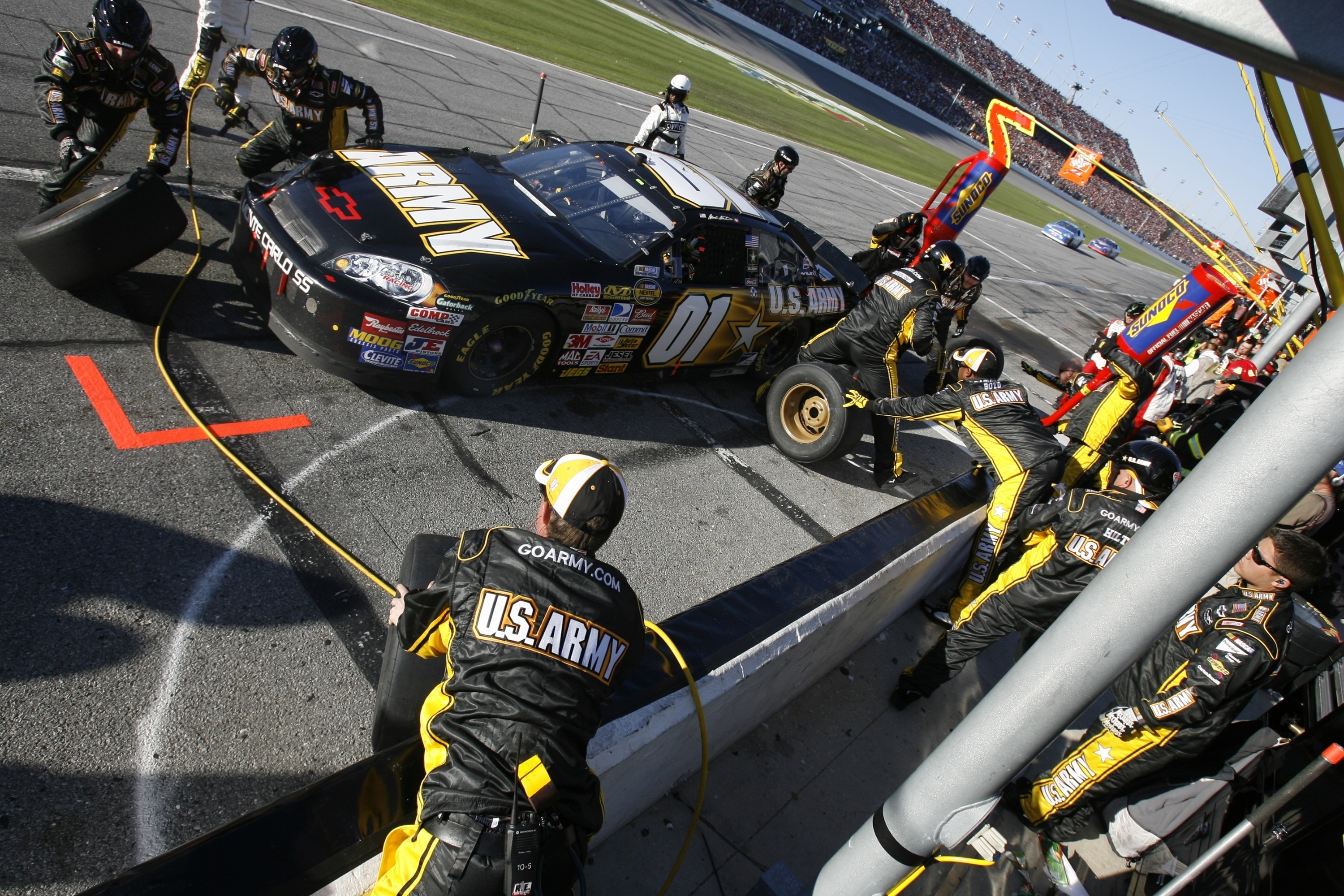 Mark Martin led 26 of the final 27 laps before being overtaken by Kevin Harvick at the finish line at Sunday's Daytona 500 at Daytona Beach, Fla. Harvick's margin of victory was 0.020 seconds. No. 01 U.S. Army Team's car leads for much of the race. "We were so close and I just hope that I gave all of our Soldiers something to cheer about," said Mark Martin. "I really wanted to win with all my heart. I'm honored to work with this Army team, and this was a great way to kick off my start with Ginn Racing." Photo by Courtesy (